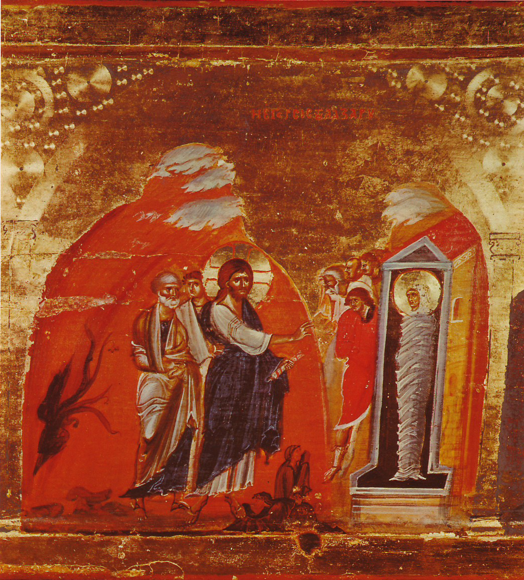 Lazarus' resurrection: scene from an iconostasis. Early 13th century. 39 x 18.5 cm